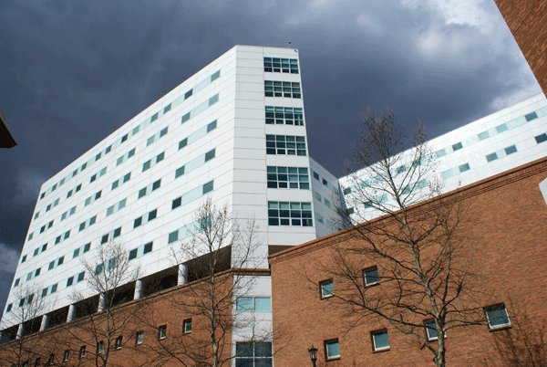 Main Hospital of the Medical Center at the University of Virginia